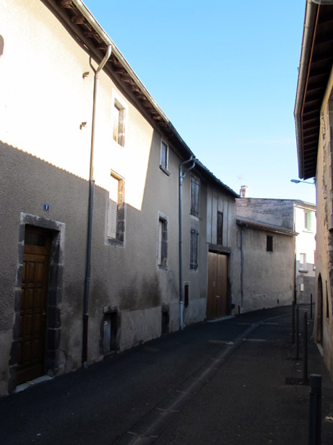 The birthplace of Jean-Baptiste Lamy in Lempdes (France)